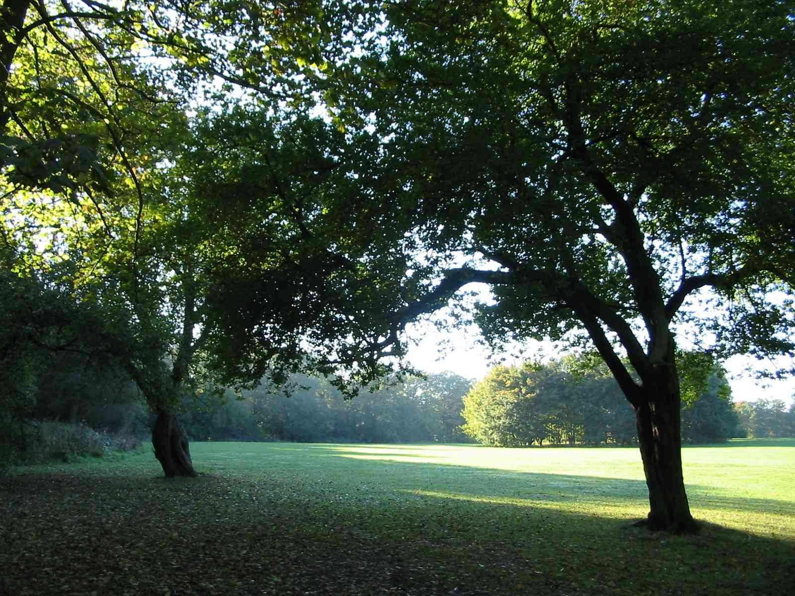 Weelsby Woods Early Summer.